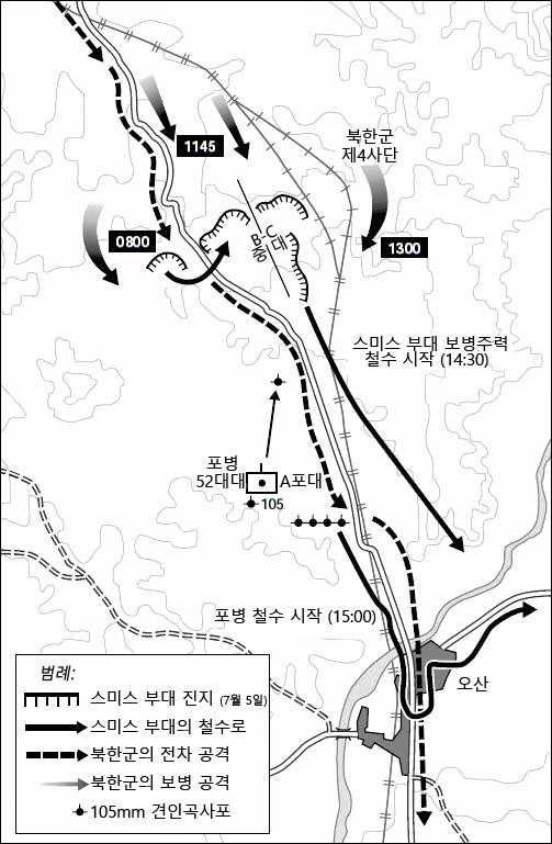 Battle of Osan Map